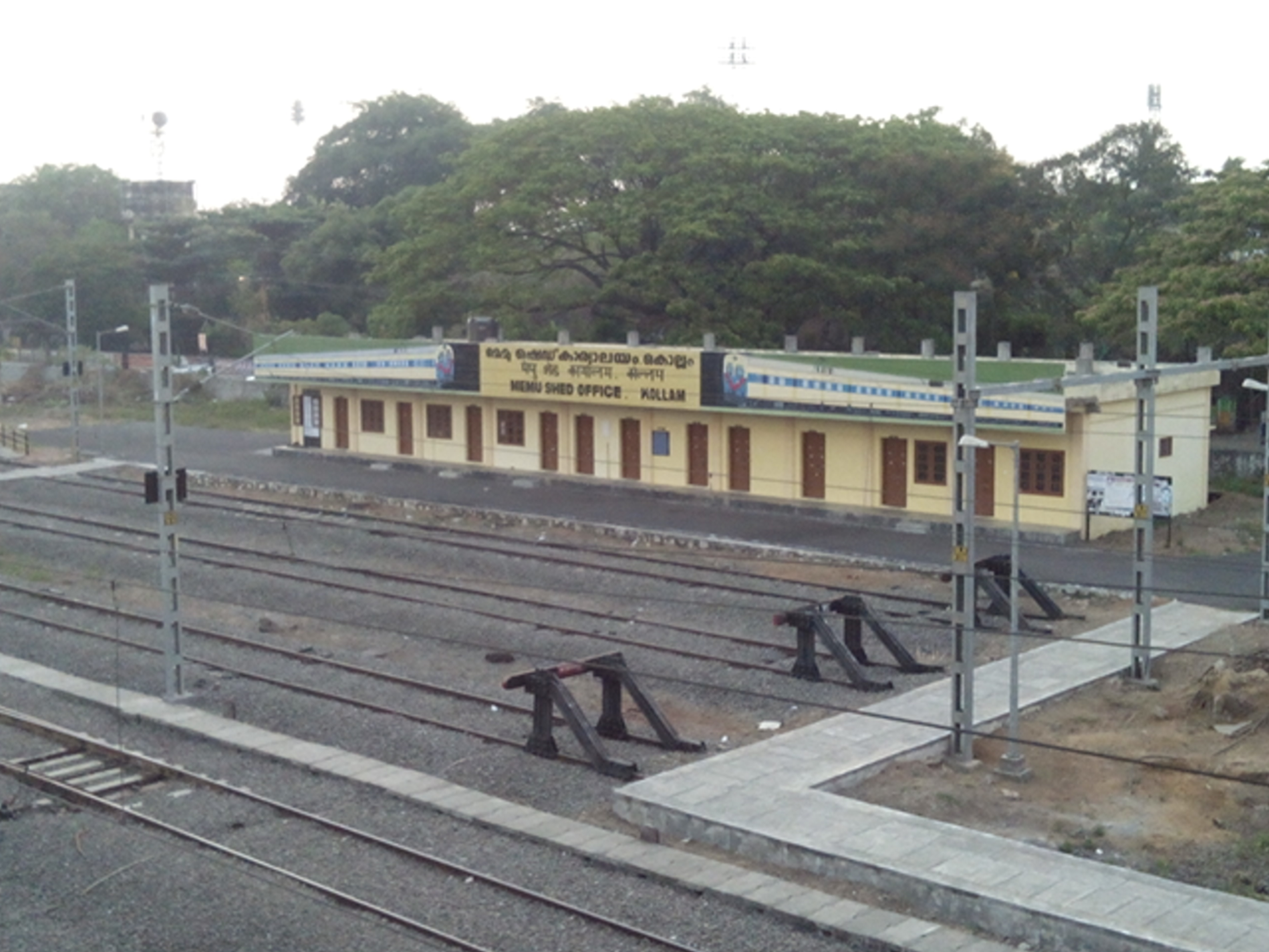 MEMU Shed Office, Kollam: The biggest & most facilitated MEMU Shed of Kerala is in Kollam